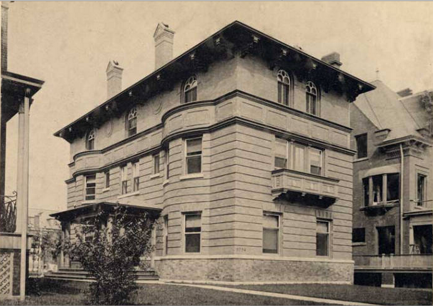 Jacques Loeb Residence (c. 1896), 5754 Woodlawn Avenue, Chicago, designed by Patton & Fisher, published in The Inland Architect and News Record, c. 1896